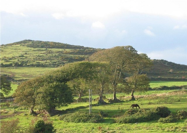 Ballyscanlon Ballyscanlon near Fenor